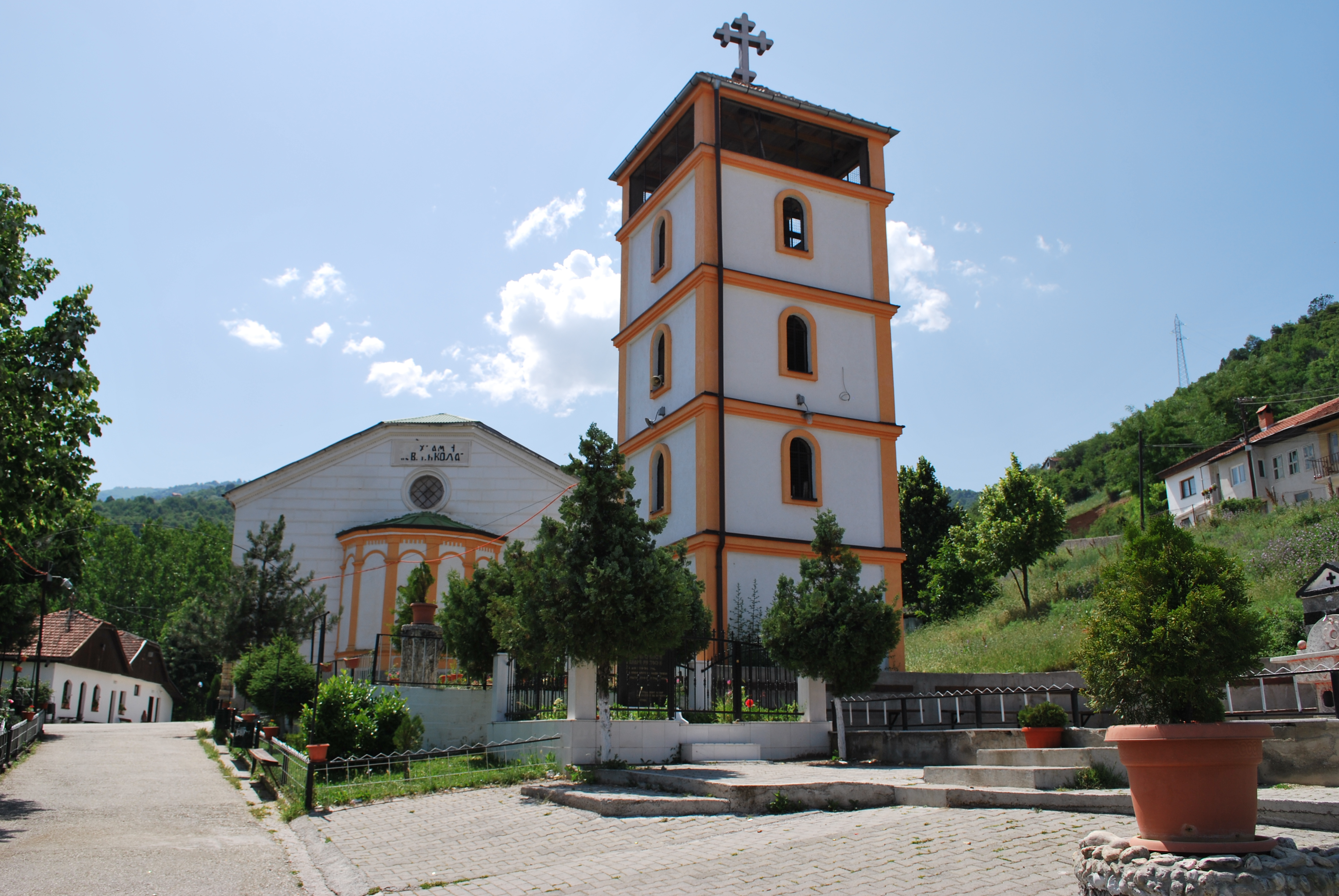 St. Nicholas Church in Tetovo, Macedonia